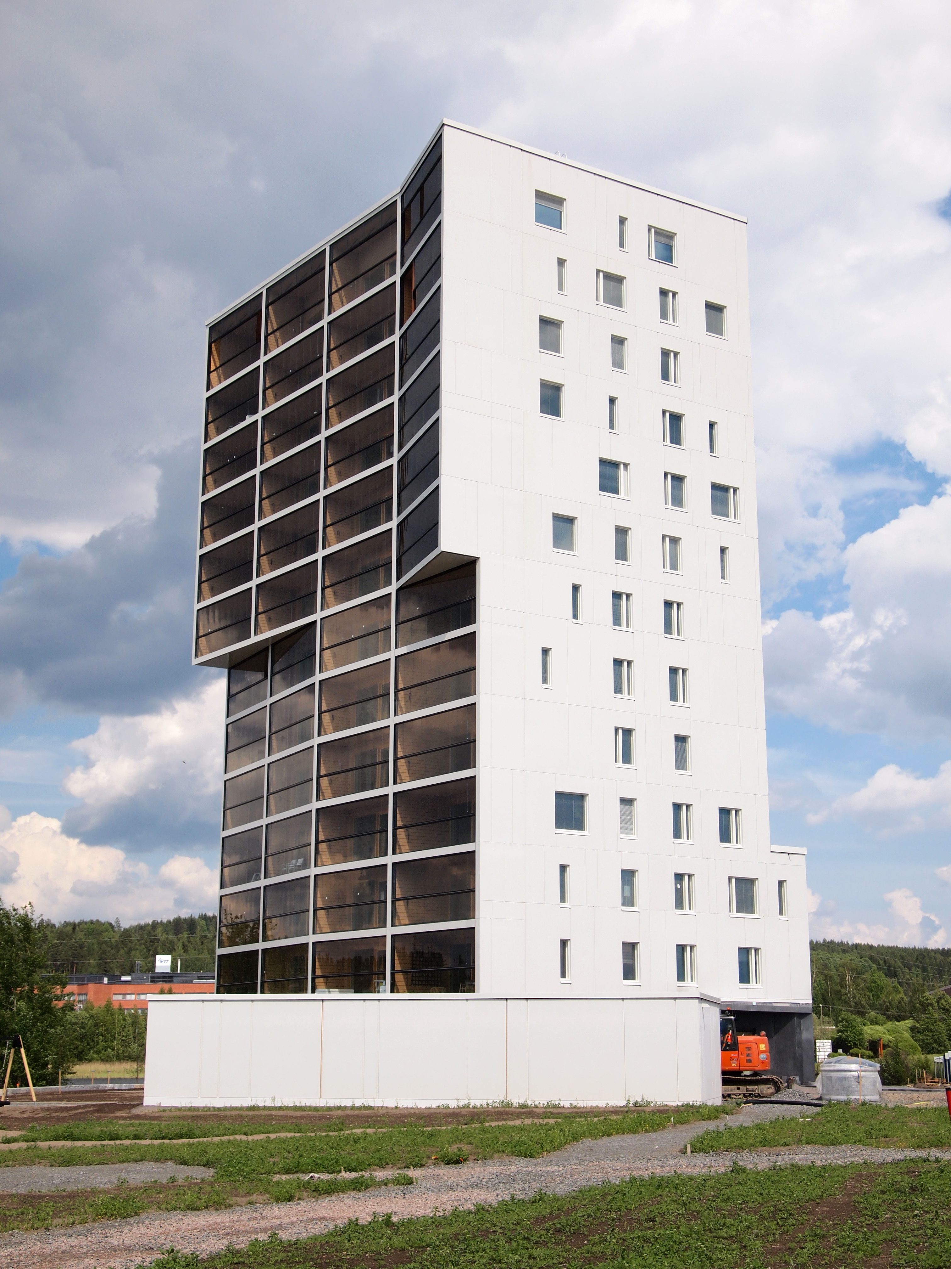 Building Maailmanpylväs in Äijälänranta, Jyväskylä. This photograph was taken with an Olympus E-PL1